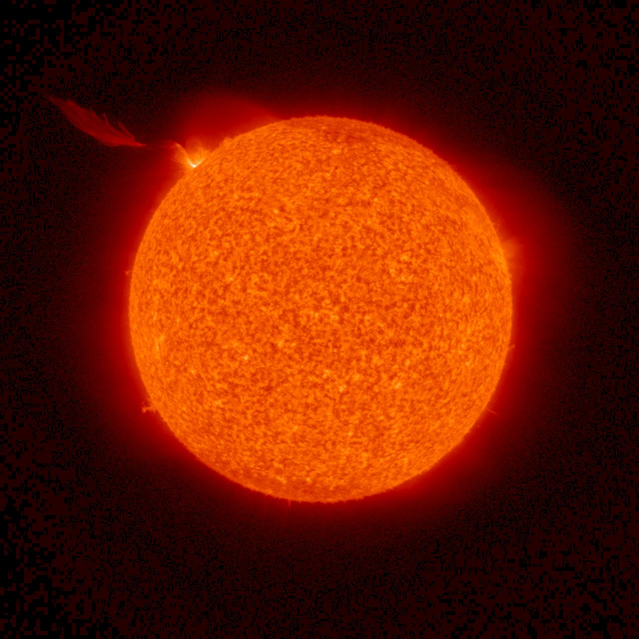 At 11:27:28 UT on May 29, 2020, the Solar Ultraviolet Imager (SUVI) aboard GOES-16 (GOES-East), captured the largest solar flare, or eruption of radiation on the surface of the sun, since October 2017. The flare can be seen on the upper left side of the sun’s horizon. The sun is a pretty turbulent place, and its massive, complex magnetic field causes giant solar eruptions such as solar flares and coronal mass ejections. This field is large enough to encapsulate space far past the edge of the planets and helps protect the planets within it from harmful cosmic particles, similar to how the Earth’s magnetic field protects it from much of the sun’s radiation. We can see manifestations of the magnetic field in the form of sunspots, which are cooler, dark areas on the sun’s surface which mark regions where magnetism is the strongest. Solar flares are most often associated with these regions. Flares are classified according to their strength and range: B, C, M, and X are ordered from smallest to largest, with each letter representing a ten-fold increase in energy output. This particular flare was a relatively small M-class flare. Although X-class flares are the most dangerous, with the potential to damage satellites, communication systems, ground-based technologies, and power grids, M-class flares can cause brief radio blackouts at the poles and minor radiation storms that can potentially harm astronauts beyond the planet’s atmosphere. This is why it’s important for scientists to constantly monitor the sun’s activity for changes. The sun’s solar cycle spans roughly 11 years, and when the sun reaches its maximum activity, these flares become larger and more frequent, which increases the chances that one may affect the Earth. Although it’s difficult at this point to say if the sun’s activity is beginning to ramp up, scientists will continue to watch the sun closely over the next several months to see what happens next.